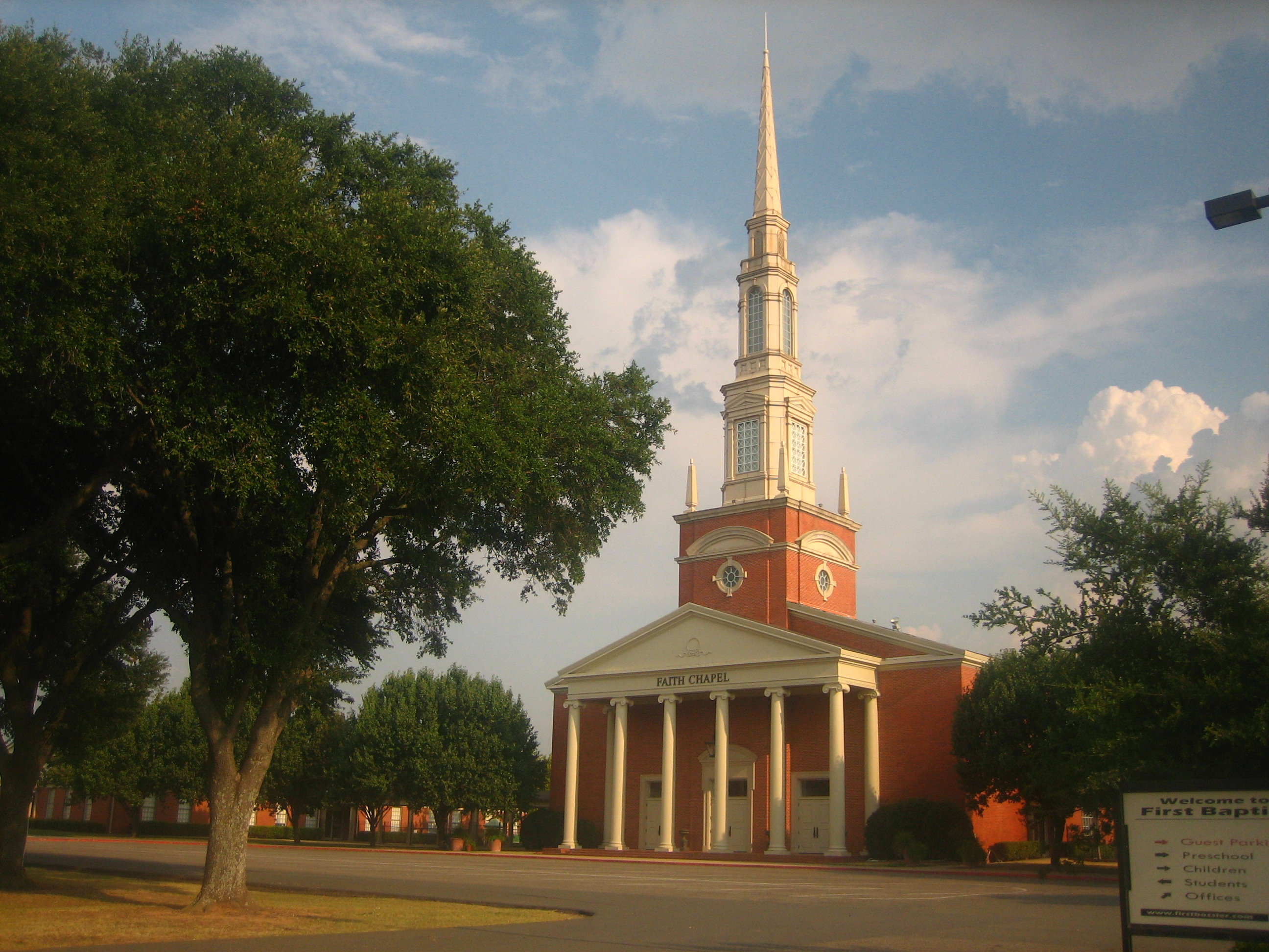 First Baptist of Bossier City building, LA